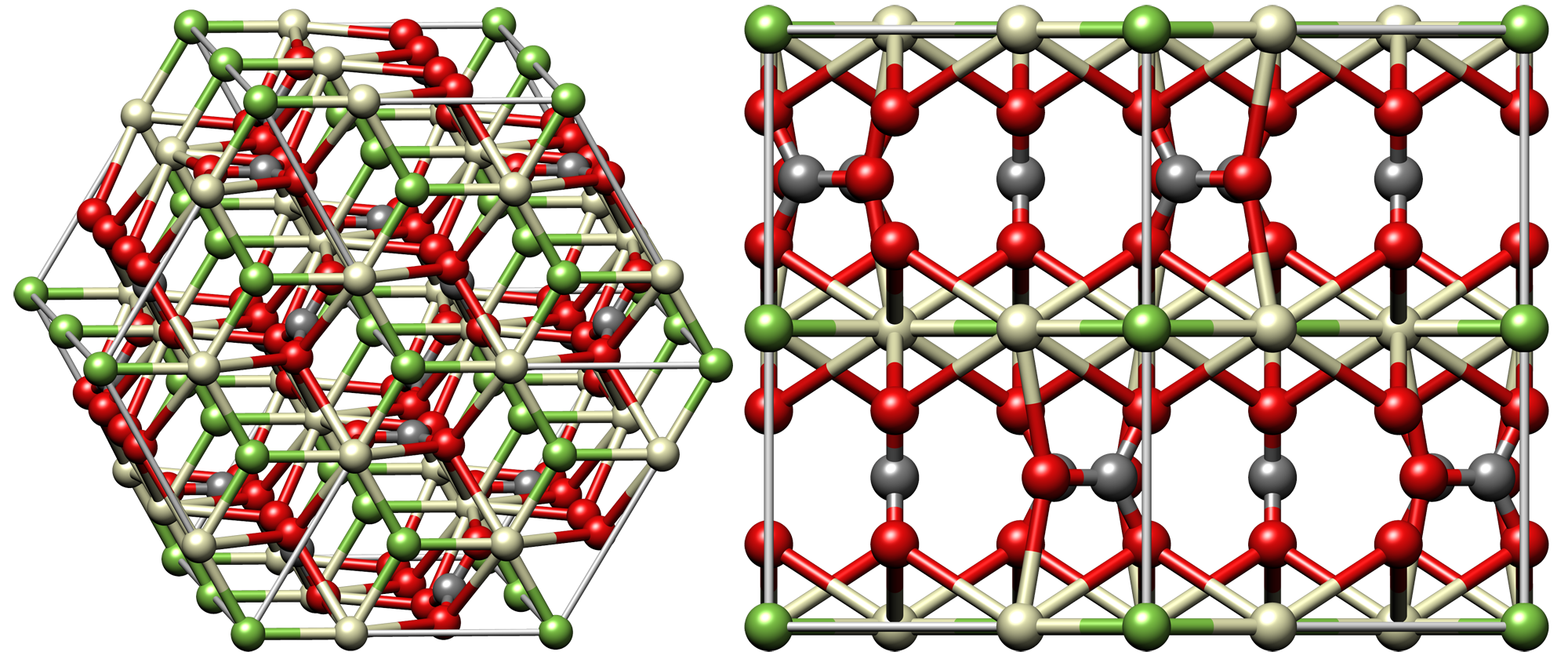 Crystal structure of bastnaesite-(Ce) - CeCO3F. Donnay G, Donnay J D H Colour code: Carbon, C: grey Florine, F: green Cerium, Ce: yellow Oxygen, O: red Cell: silver